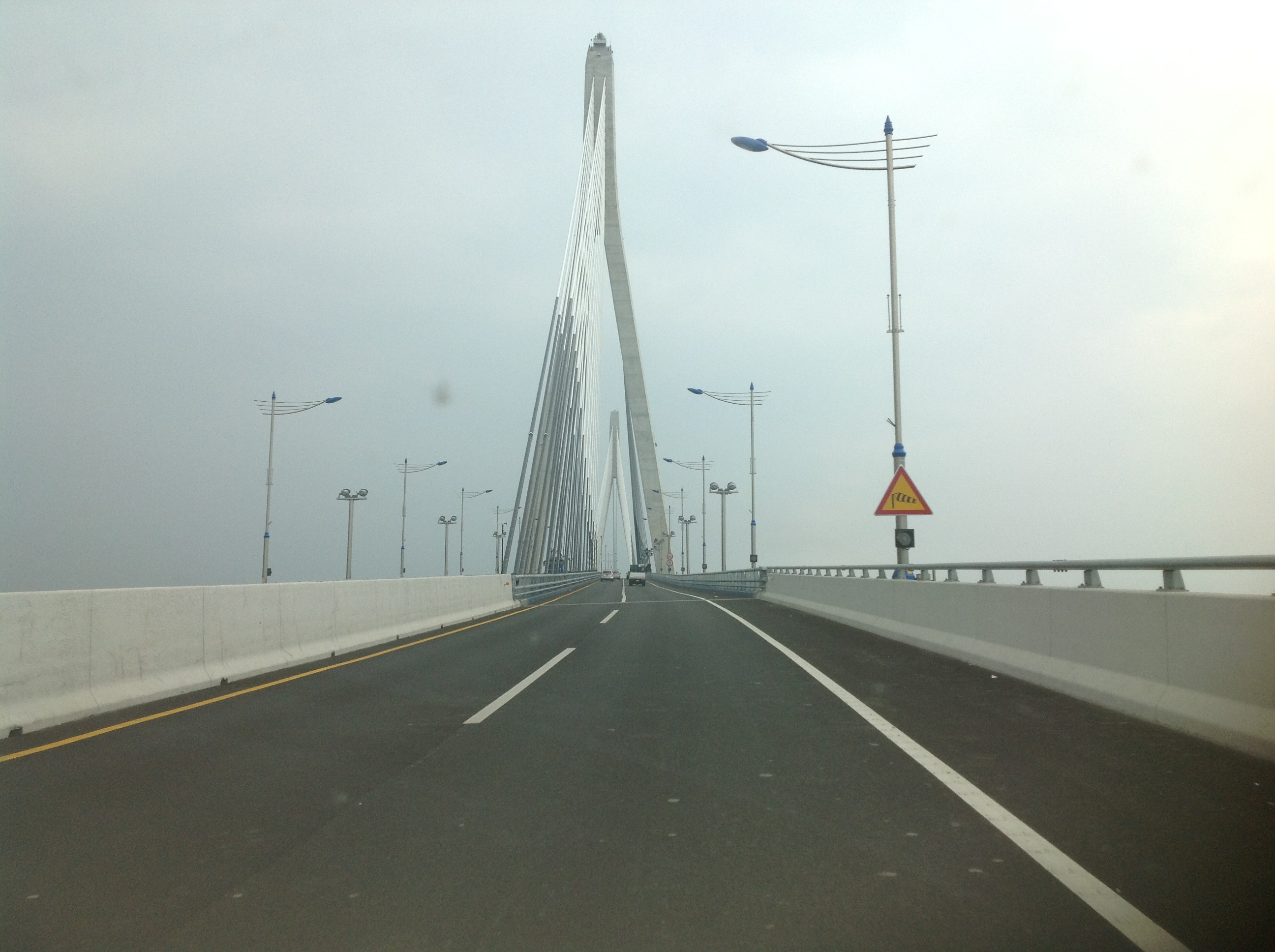 Mokpo bridge